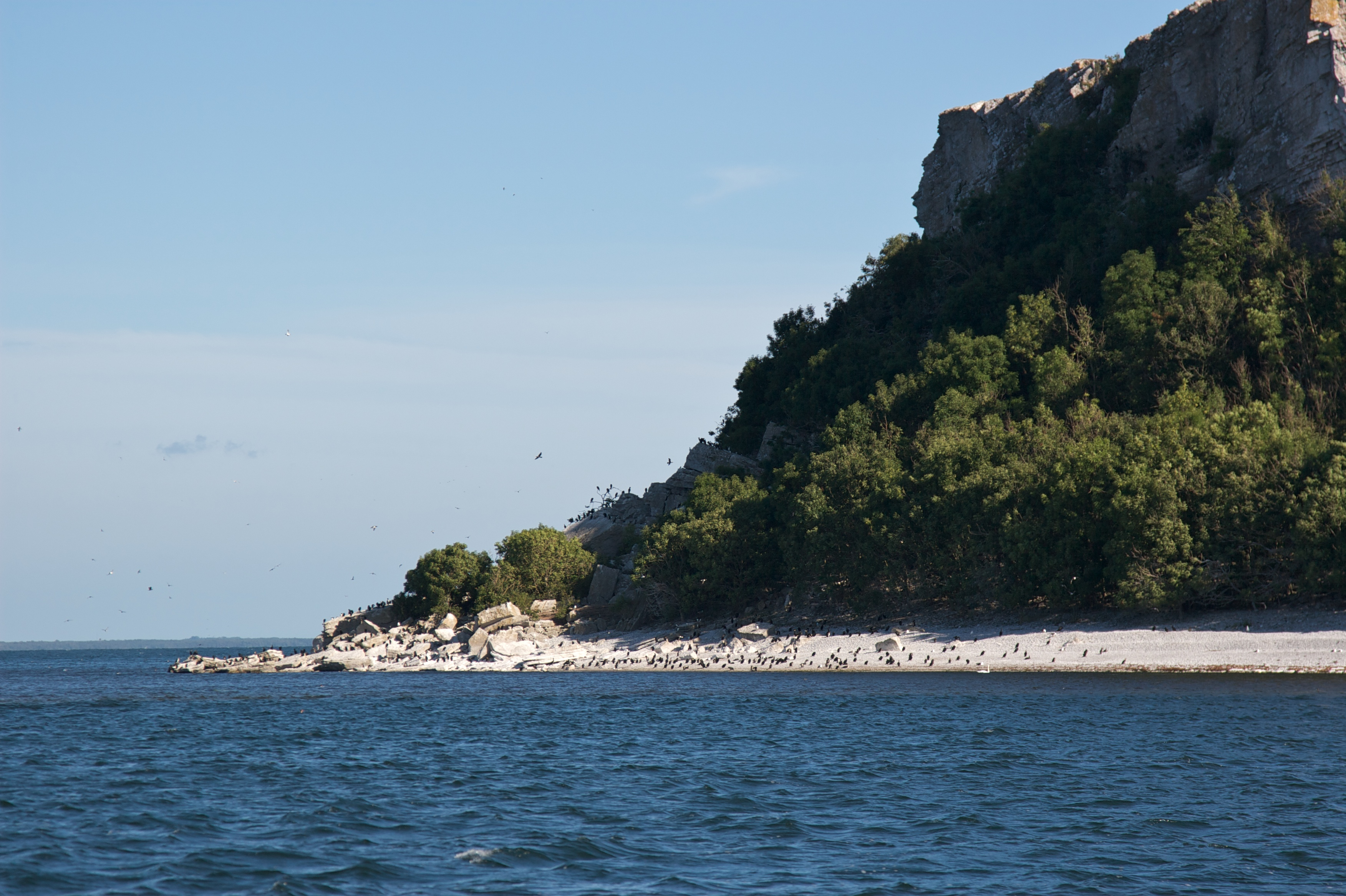 Cliffs on Stora Karlso